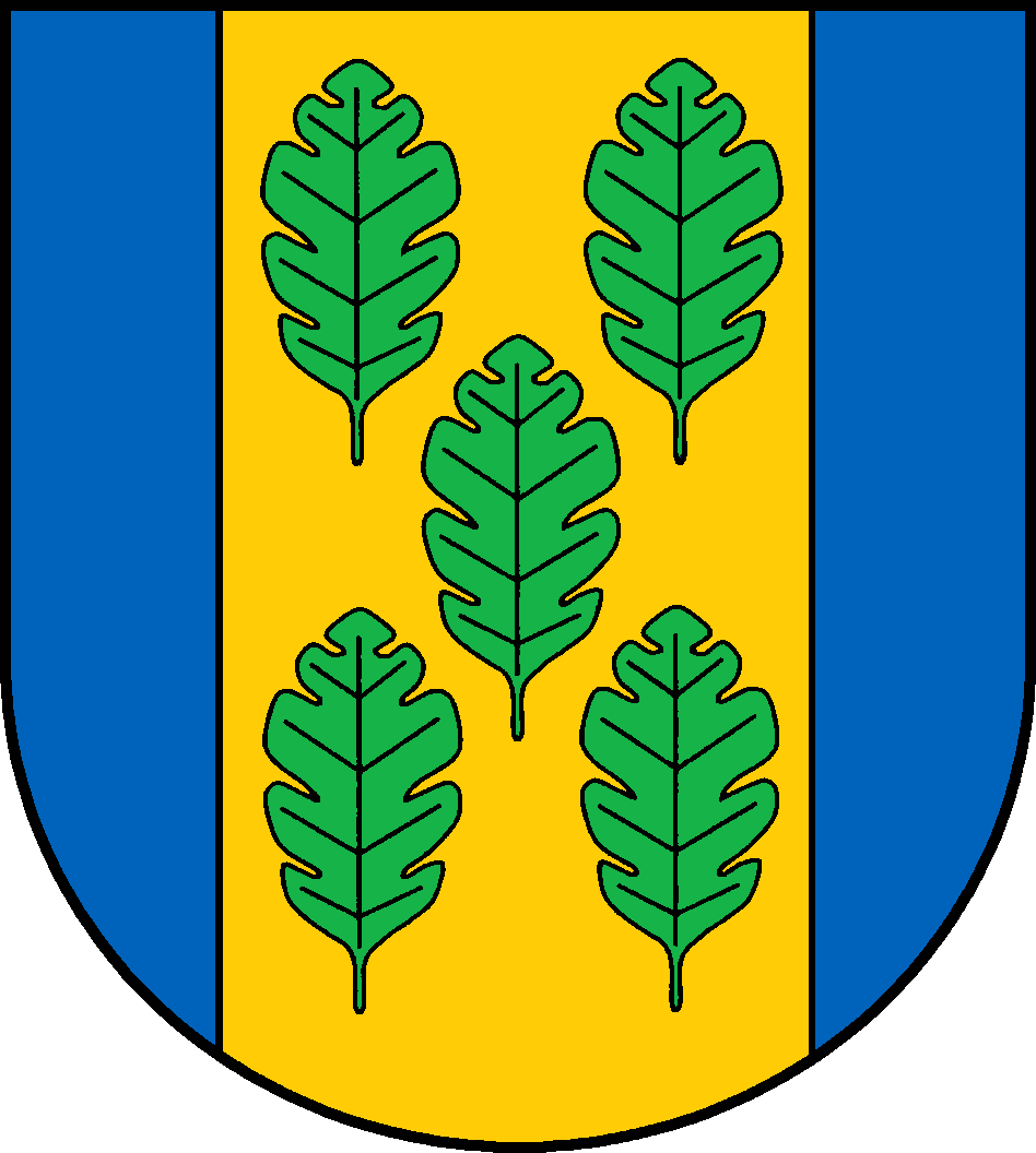 Coat of arms of the municipality Nehmten in Schleswig-Holstein, Germany.